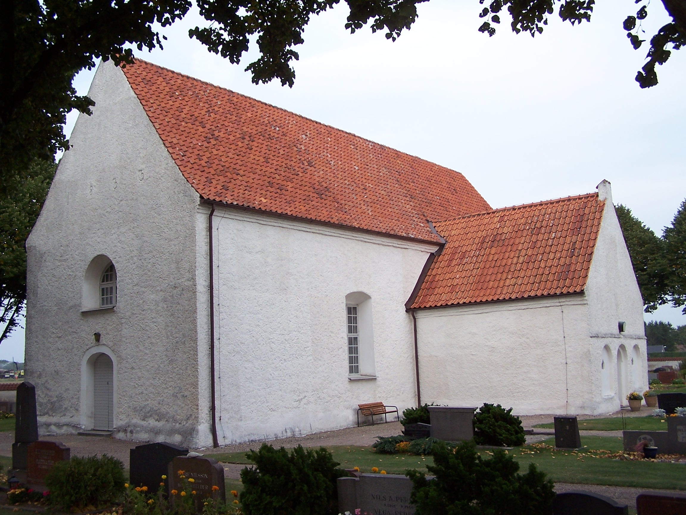 Gualöv church, Sweden